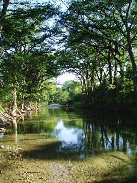 Bald cypress trees along Medina River near Bandera, Texas